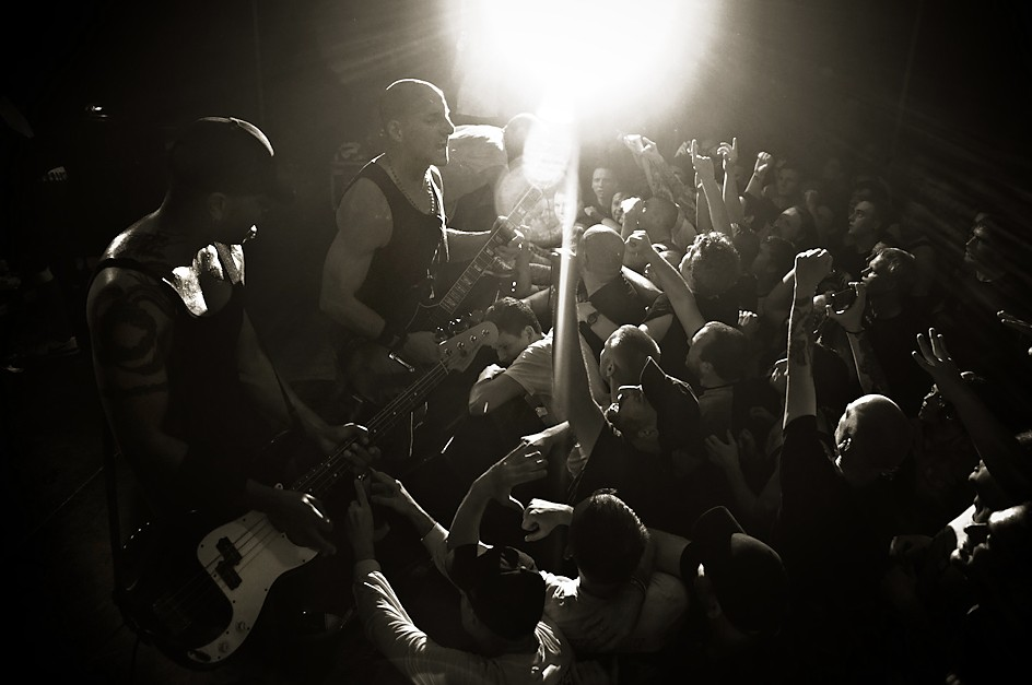 Youth of Today performing in SO36, Berlin.